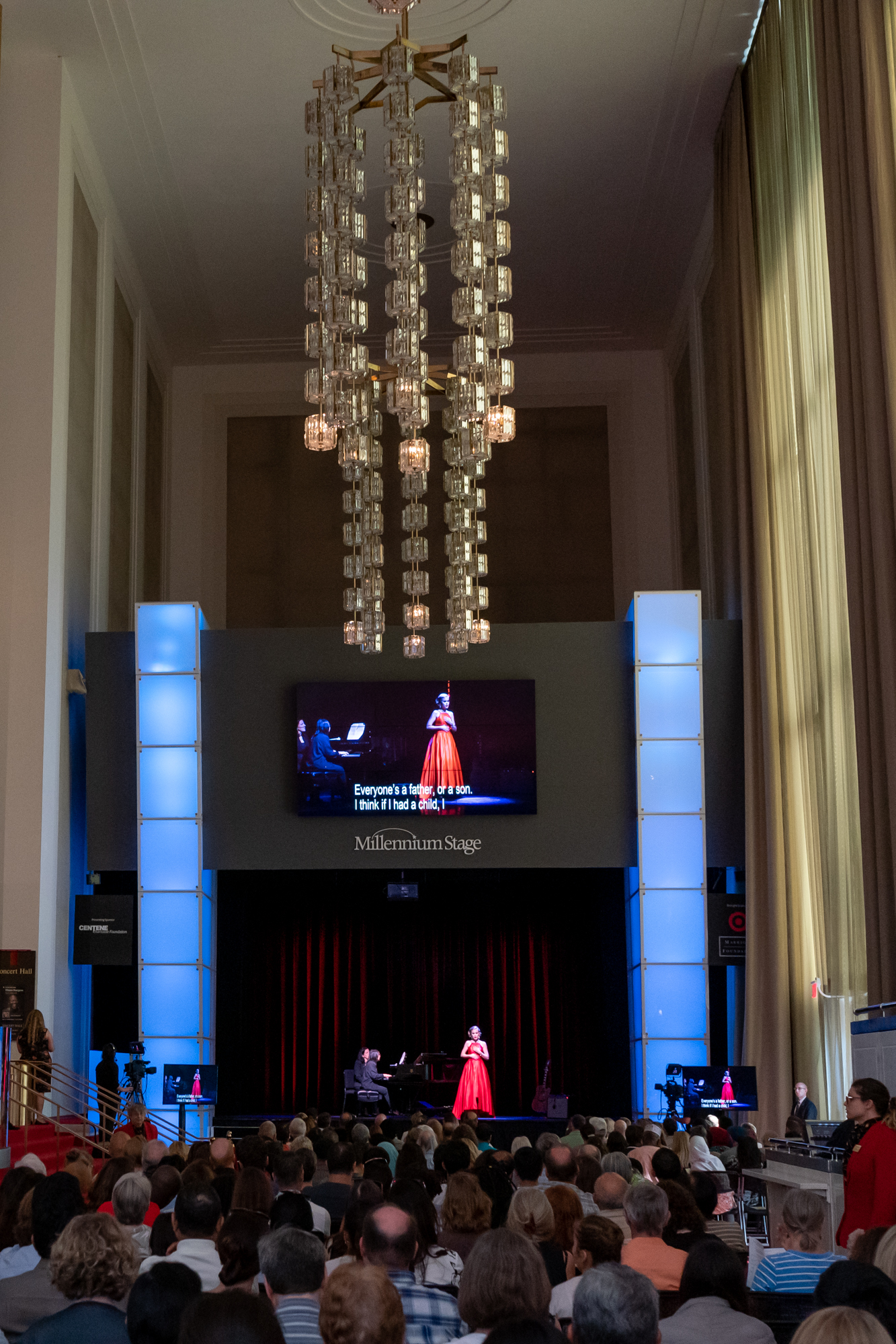 Vocalist Tori Tedeschi Adams performs on the Millennium Stage at the John F. Kennedy Center for the Performing Arts in Washington, D.C. Friday, July 26, 2019, during the 2019 VSA International Young Soloists Competition concert. (Official White House Photo by Andrea Hanks)